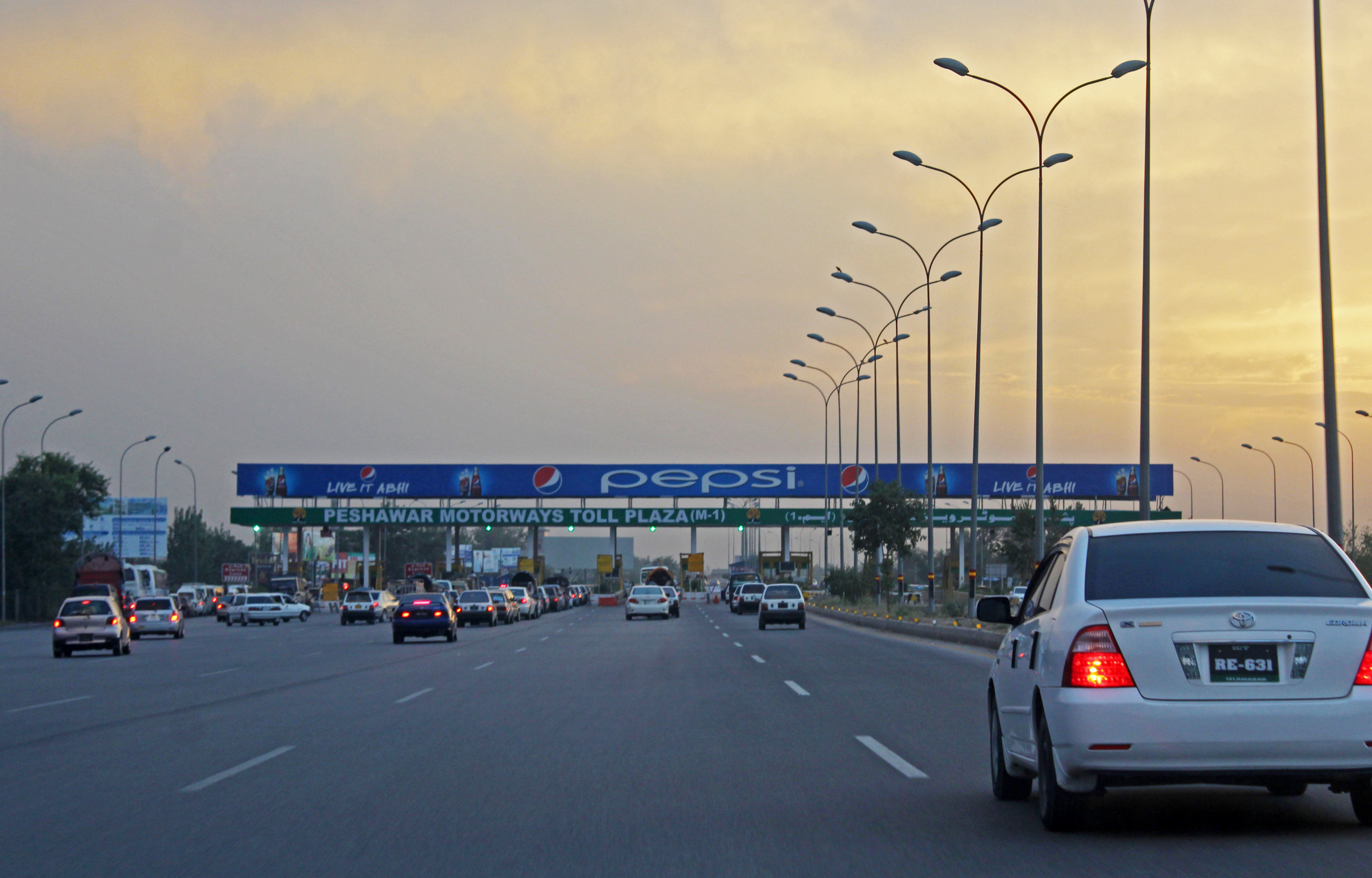 M1 motorway Peshawar Toll Plaza